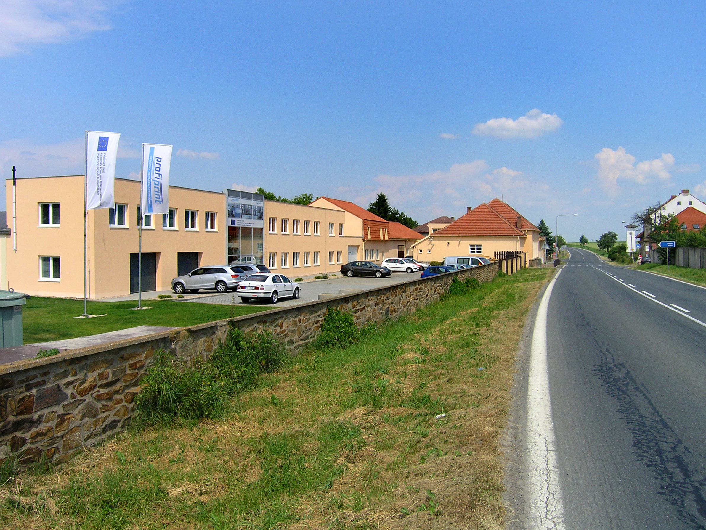 South part of Pučery, part of Kořenice village, Czech Republic